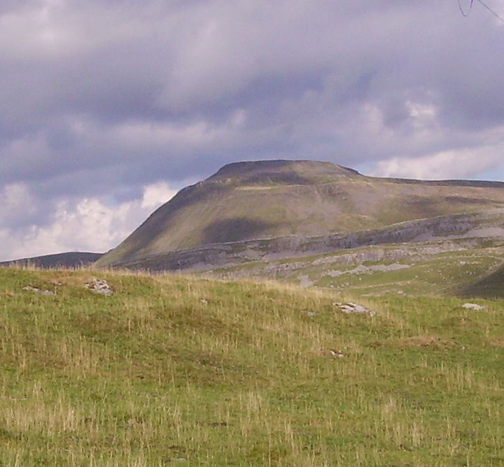 Ingleborough mountain near Ingleton in the Yorkshire Dales, United Kingdom